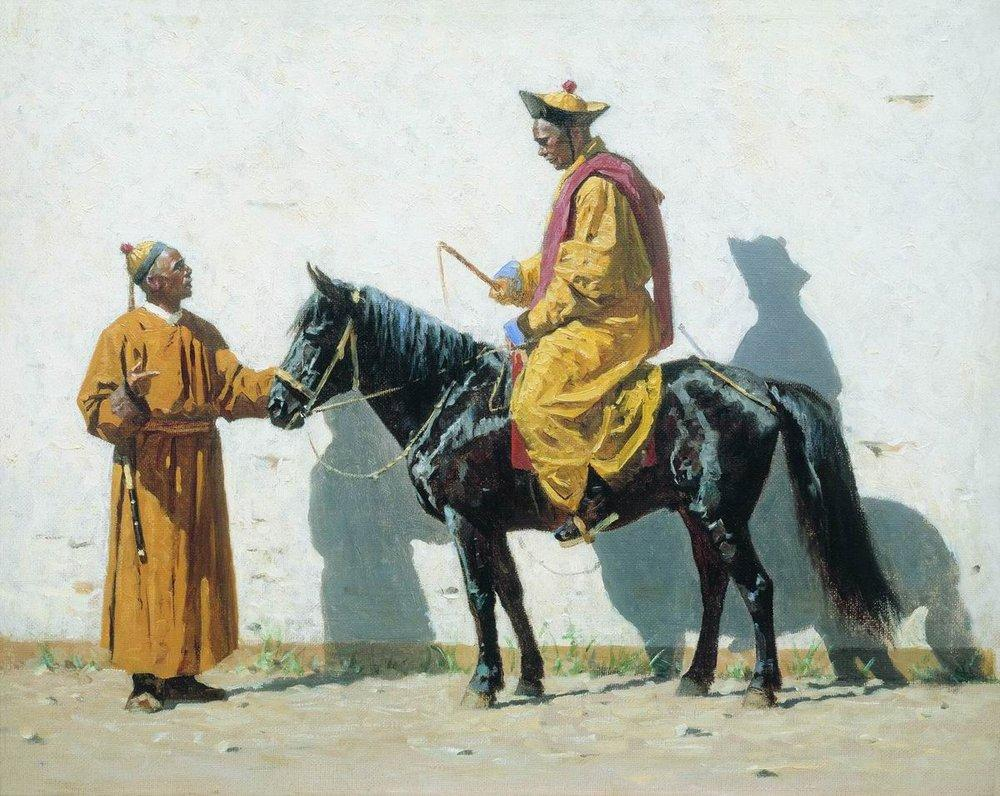 Kalmyk lama